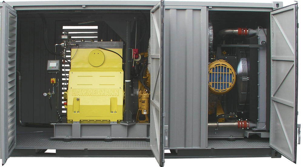 Built into 10’ and 20’ containers or special sizes